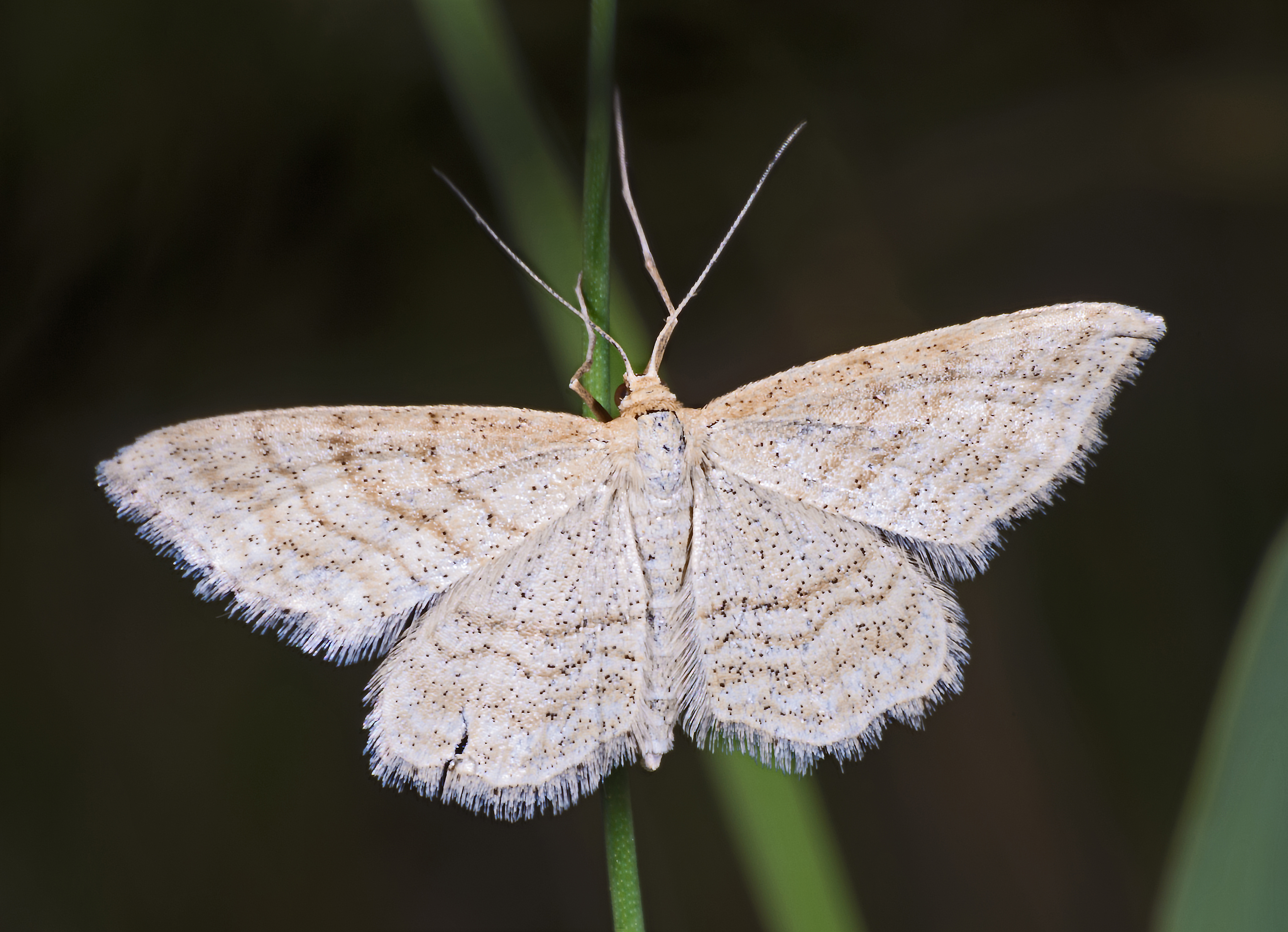 Idaea macilentaria. Dorsal side.